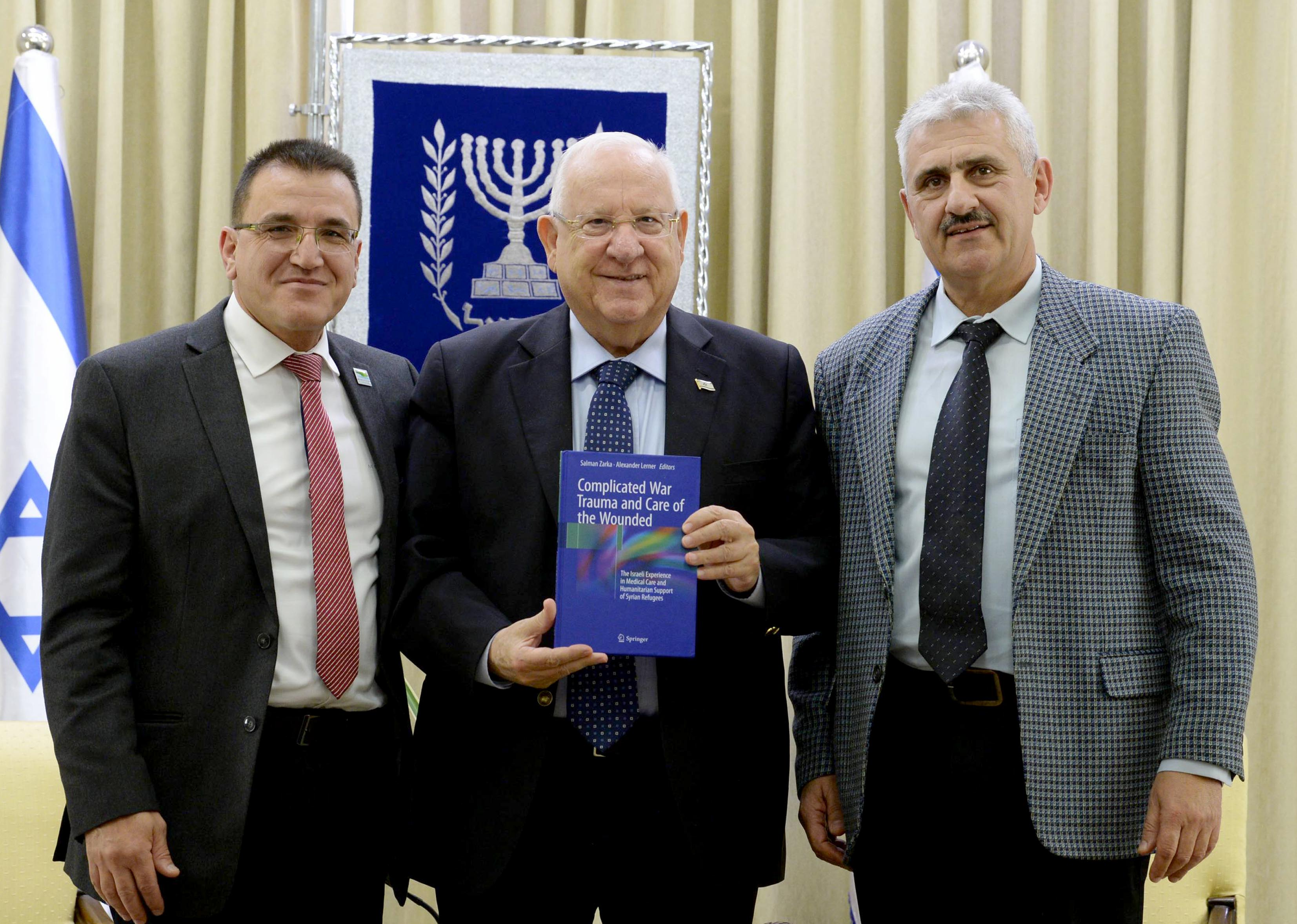 President of Israel, Reuven Rivlin, in a meeting with the staff of Ziv Medical Center in Safed. He received the book "Complicated War Trauma and Care of the Wounded", which deals with the medical and humanitarian assistance granted to Syrian refugees at Ziv Hospital. Photo credit: Mark Neyman / GPO. Depicted people: Reuven Rivlin, Salman Zarka and פרופ' אלכסנדר לרנר